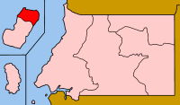 Map of Equatorial Guinea showing Bioko Norte province.